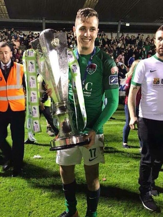 Connor Ellis with the 2017 SSE Airtricity League Premier Division trophy.